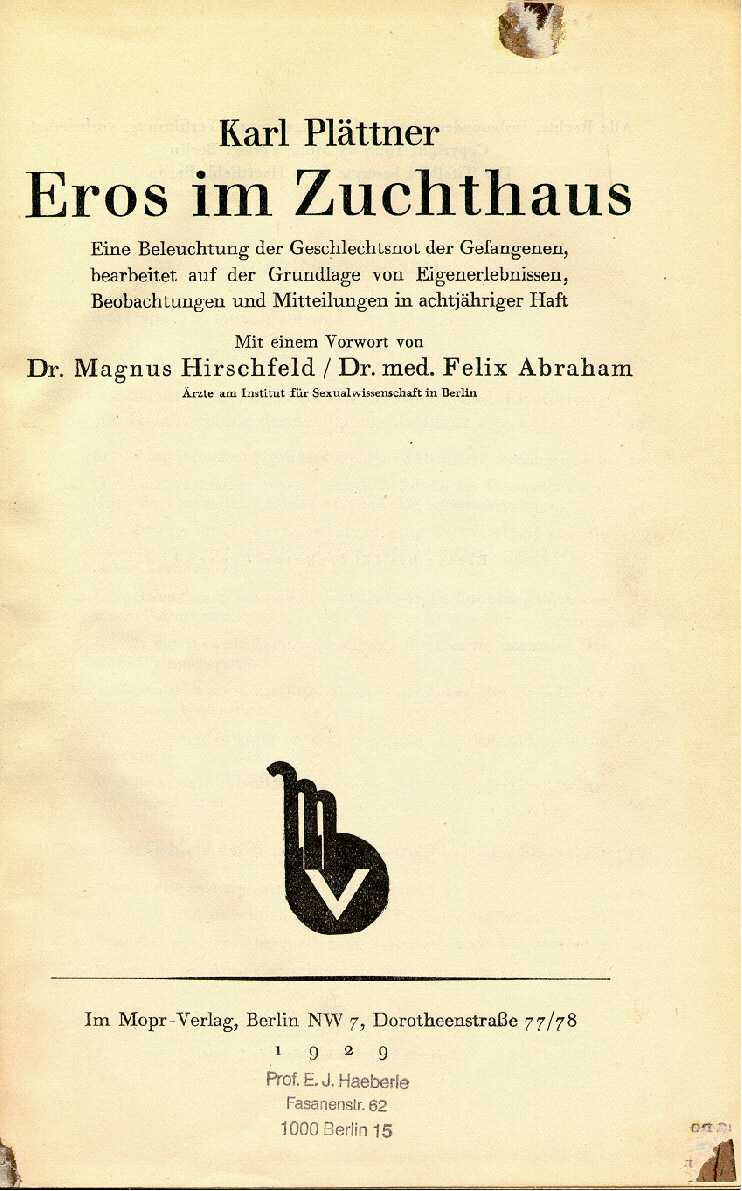 Inside Coverpage of the book Eros im Zuchthaus from Karl Plaettner